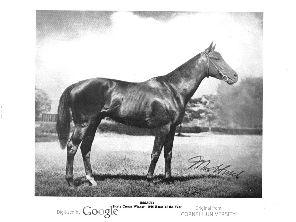 Assault was the winner of the Triple Crown in 1946. Image from Who's who in thoroughbred racing. v. II. Welch, Ned.